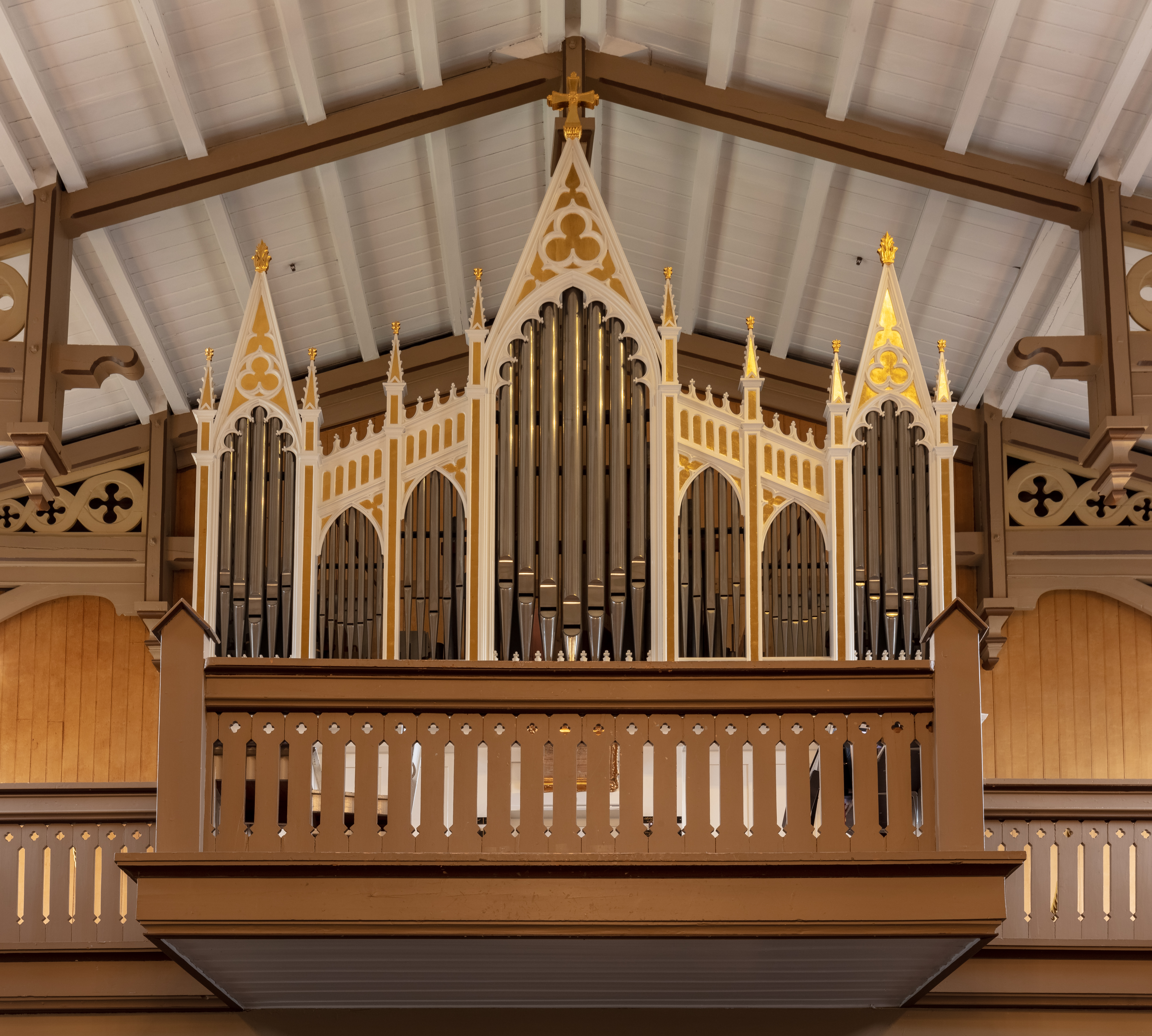 Cathedral, Tromsø, Norway